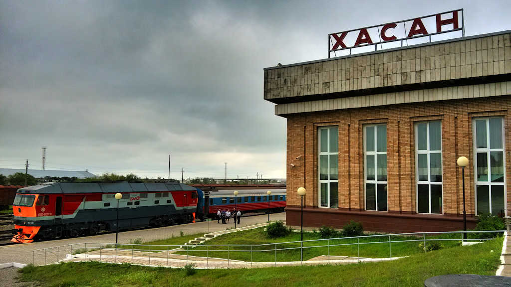 Khasan Station, Primorsky Krai, Russia Federation